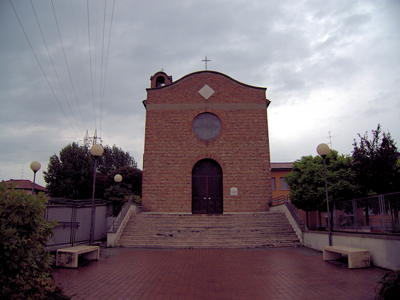 Church of San Giuseppe Lavoratore in Crema (Province of Cremona), Italy